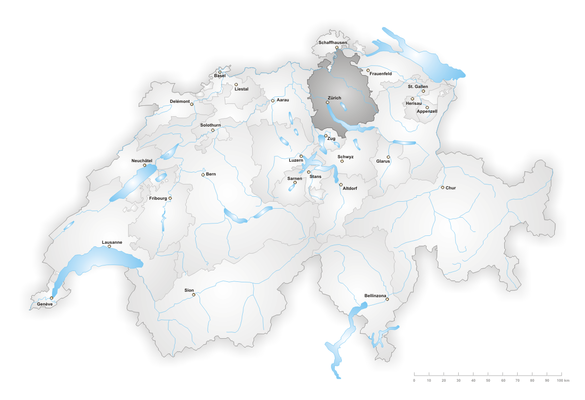 Kanton Zürich